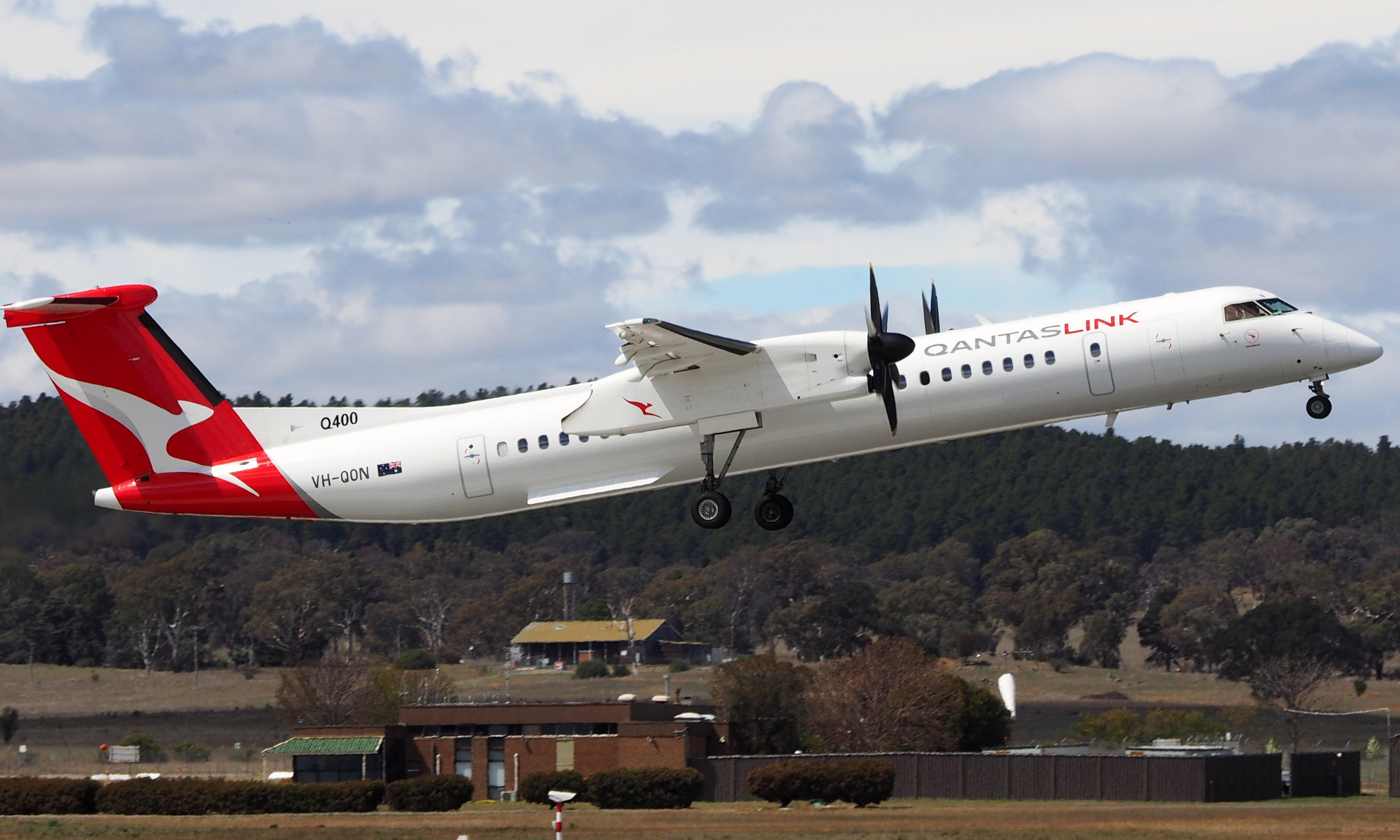 VH-QON taking off from Canberra Airport